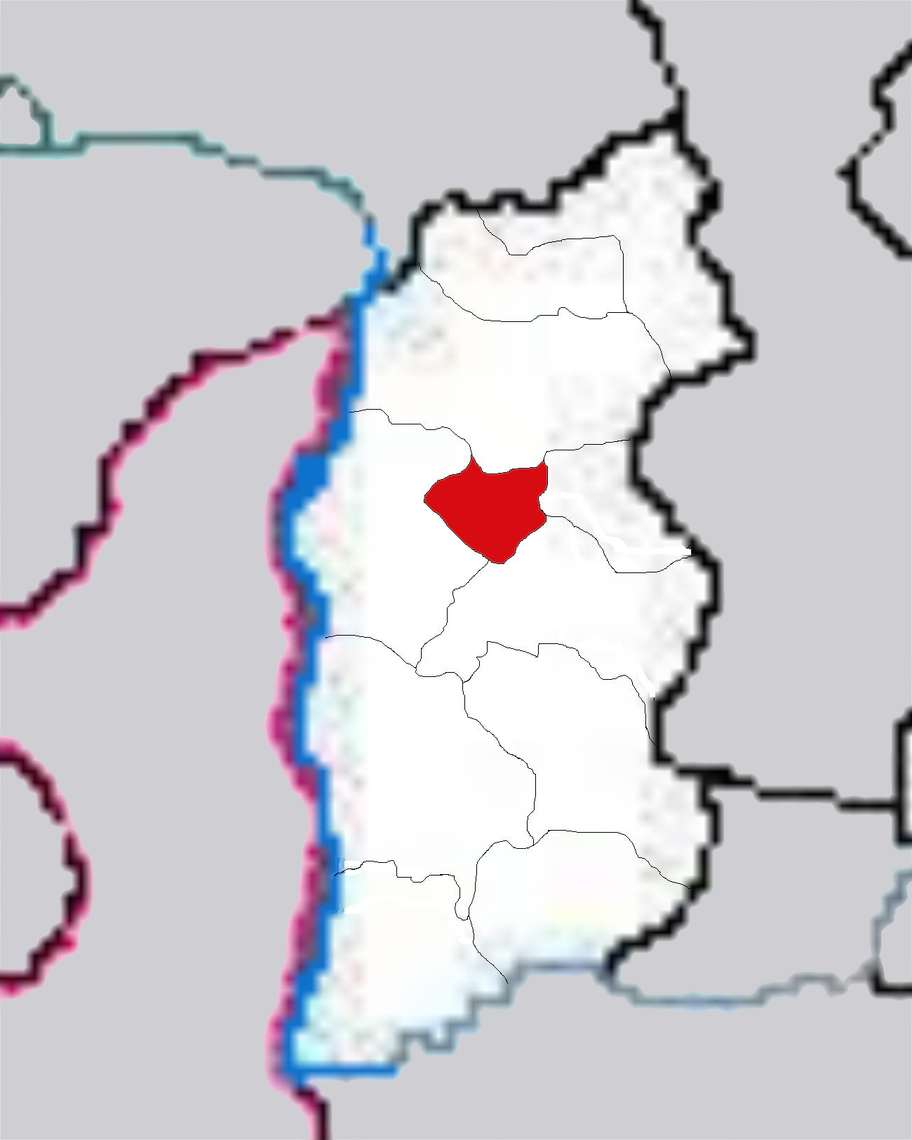 Maps of Shanxi Province of China